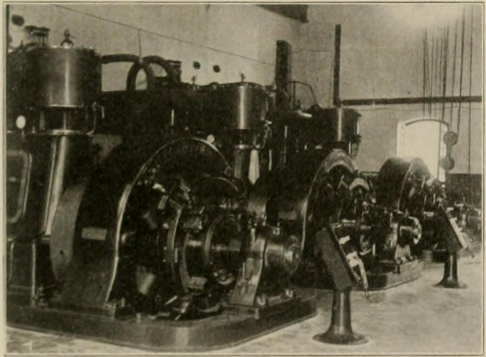 «Interior of generator room» (original caption) Title: The street railway review Year: 1891 (1890s) Authors: American Street Railway Association Street Railway Accountants' Association of America American Railway, Mechanical, and Electrical Association Subjects: Street-railroads Publisher: Chicago : Street Railway Review Pub. Co